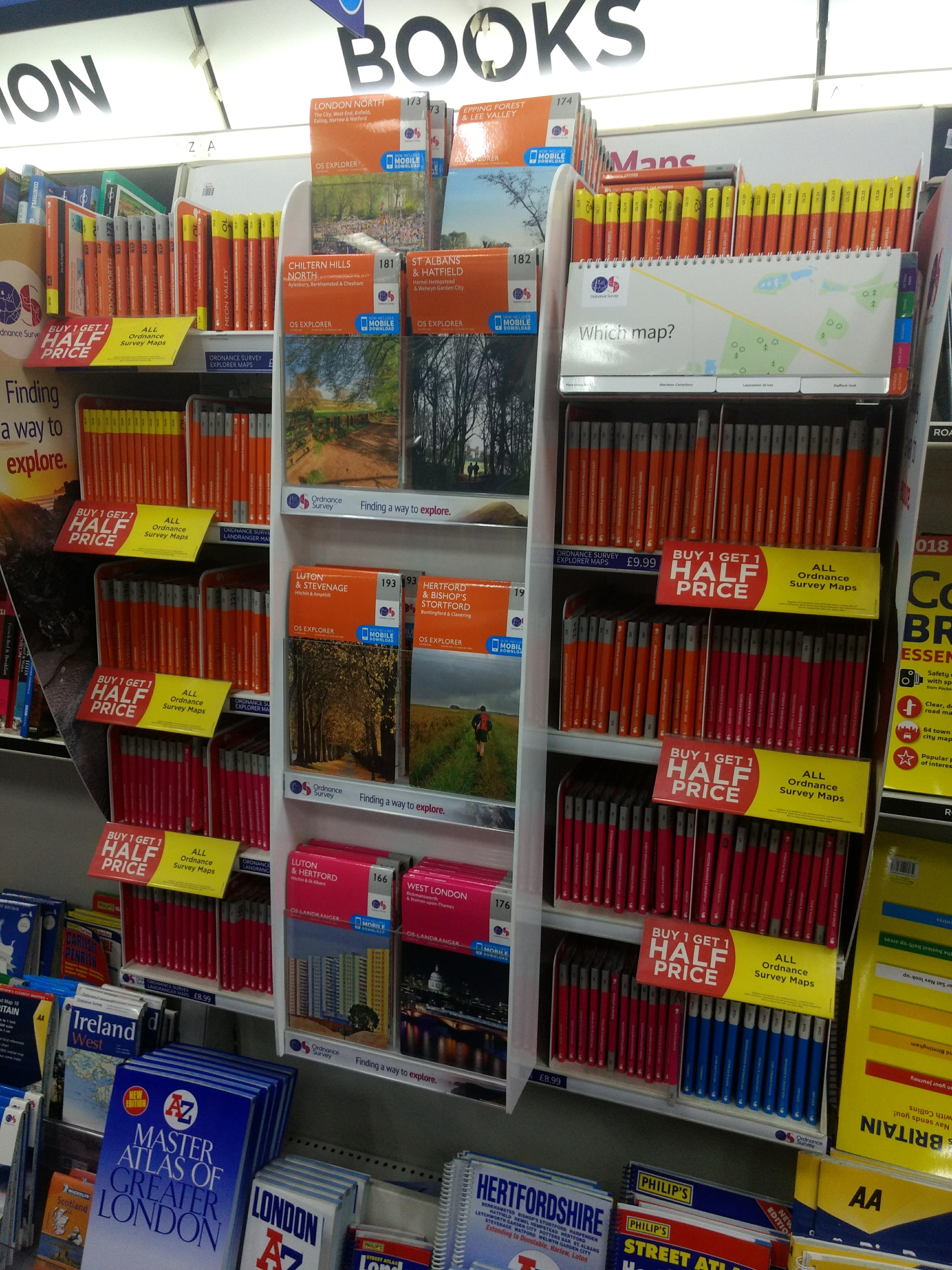 Books at W.H. Smith, Enfield, London.